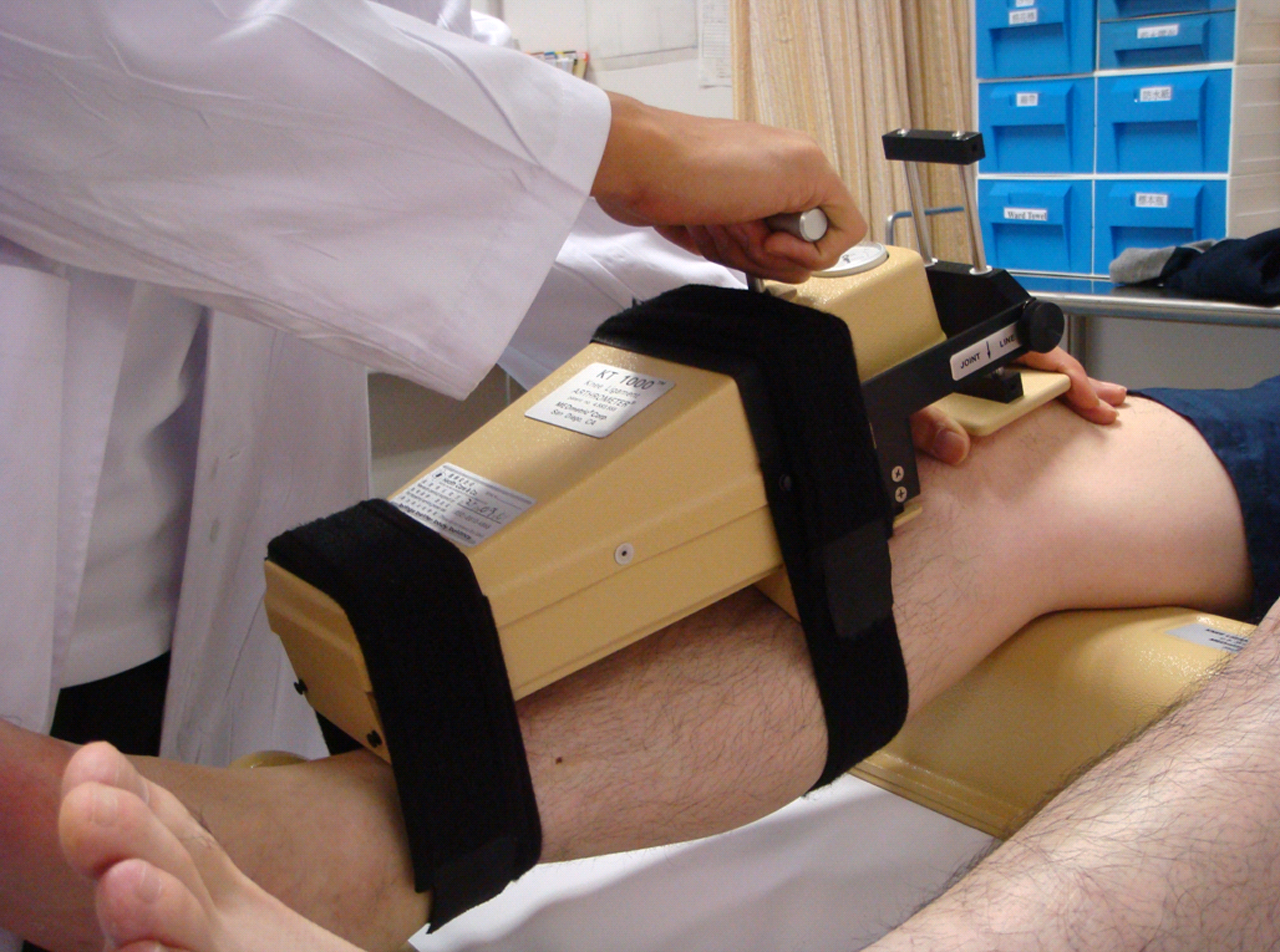 KT 1000 to measure anterior-posterior laxity of the knee.